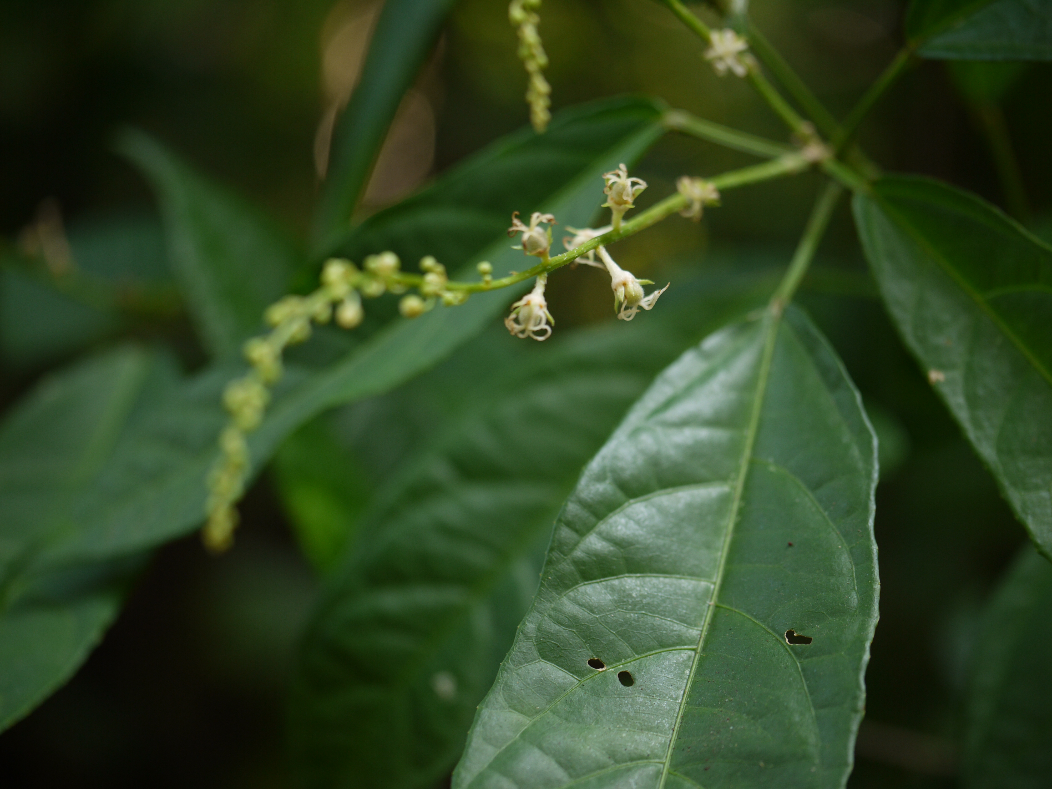 Euphorbiaceae (castor, euphorbia, or spurge family) » Croton gibsonianus Nimmo KROH-tun -- Greek: kroton (tick) due to the seed's similarity in shape ... Dave's Botanary ¿ gib-son-ee-AH-nus ? -- named for Alexander Gibson, Scottish surgeon and botanist ... Wikipedia commonly known as: Gibson's croton Endemic to: Western Ghats (of India) References: India Biodiversity Portal • Biotik